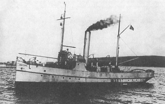 Minesweeper Al'batros, Al'batros class.